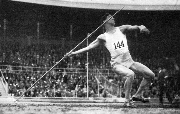 Erik Lundkvist at the Amsterdam Olympics